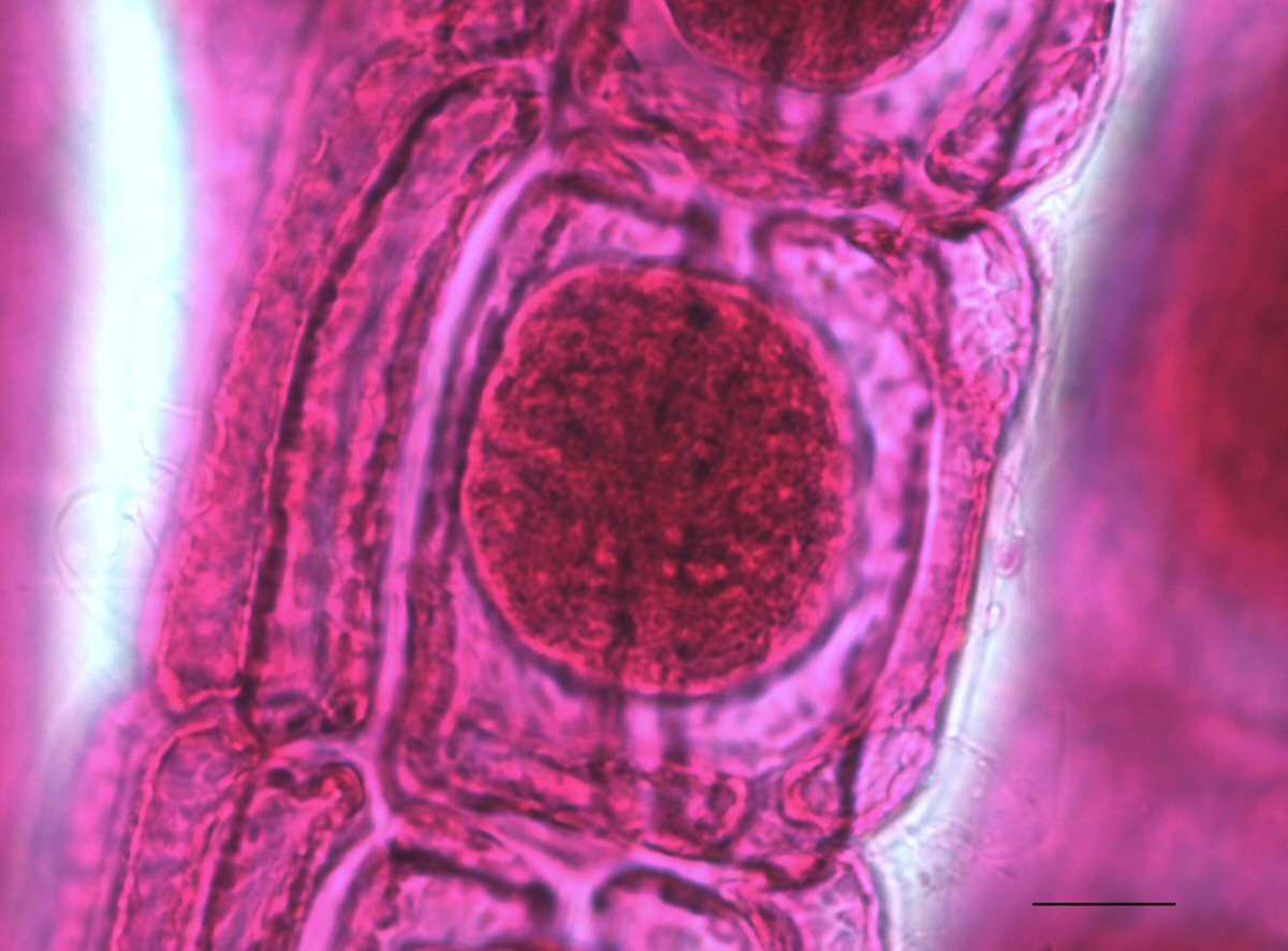 Light microscopy of Polysiphonia showing a tetraspore within a tetrasporophyte cell. Scale bar = 0.02mm.